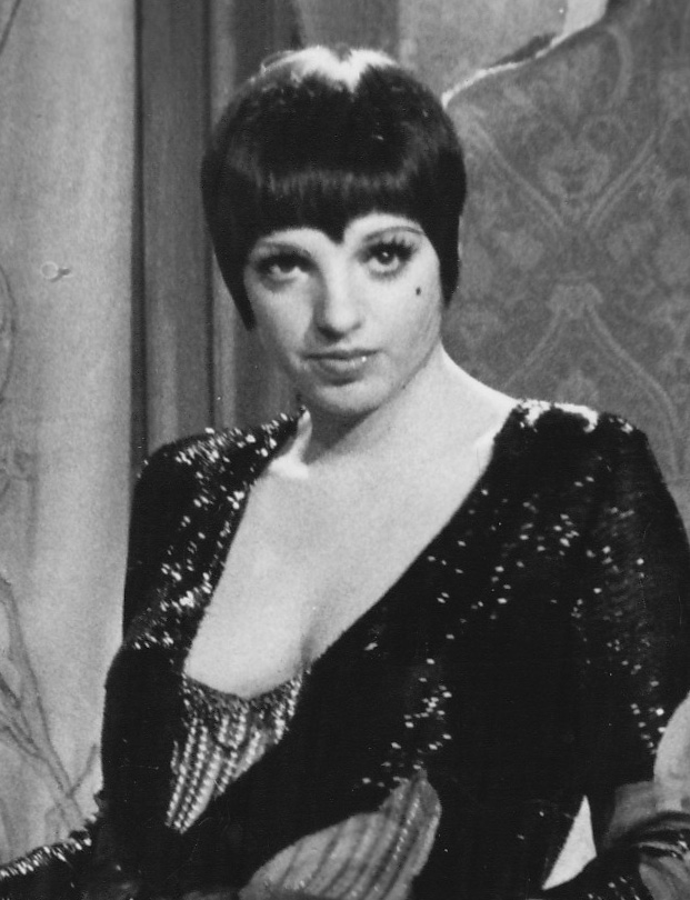 Photo of Liza Minnelli as Sally Bowles from the film Cabaret.